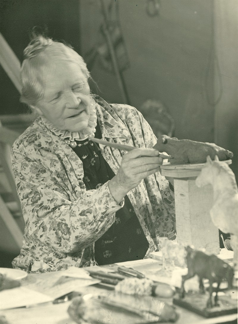 Old photograph of Anne Marie Carl-Nielsen, née Anne Marie Brodersen, Danish sculptor and wife of composer Carl Nielsen